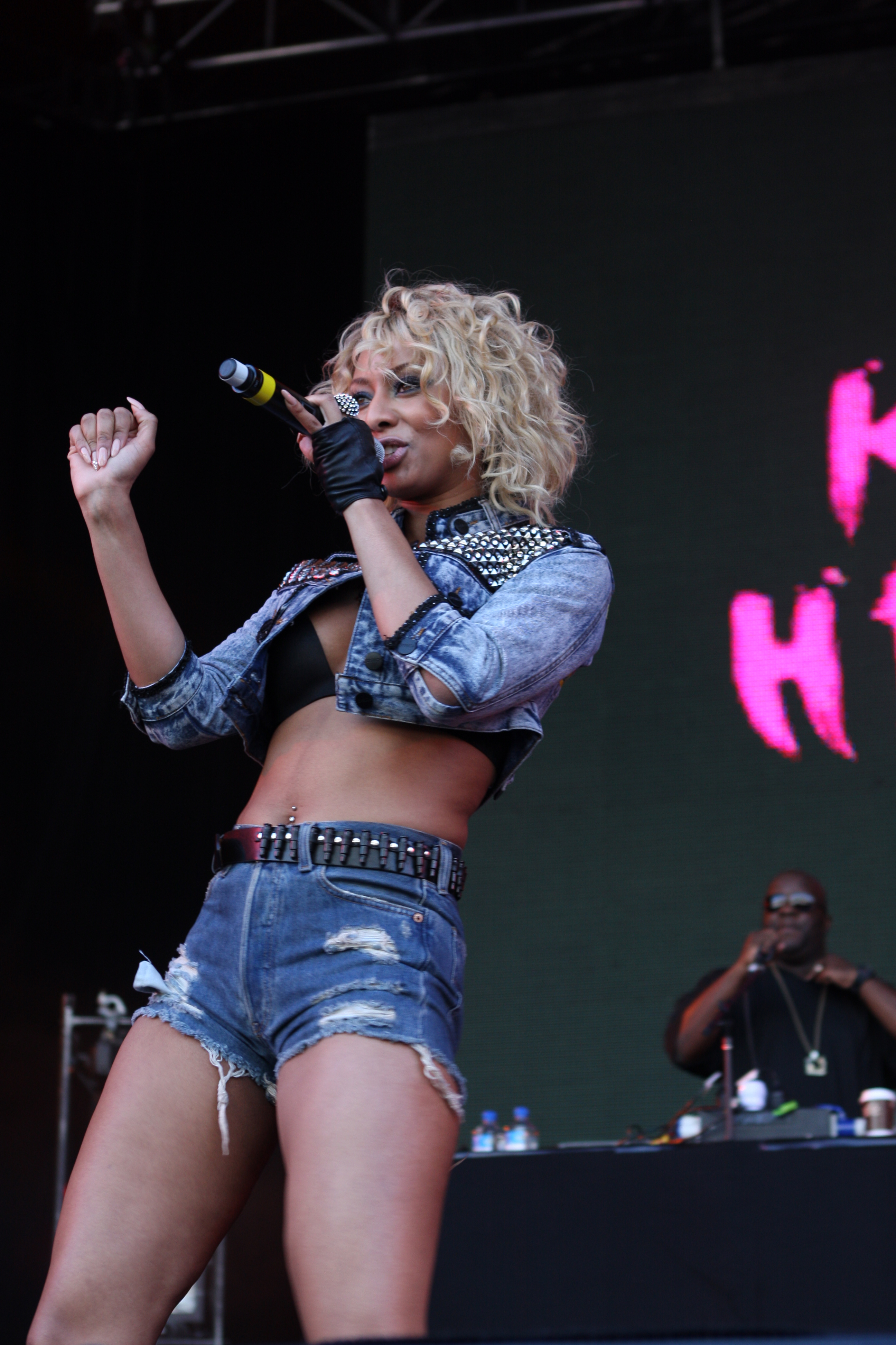 Keri Hilson performing at Supafest in Australia, April 2011